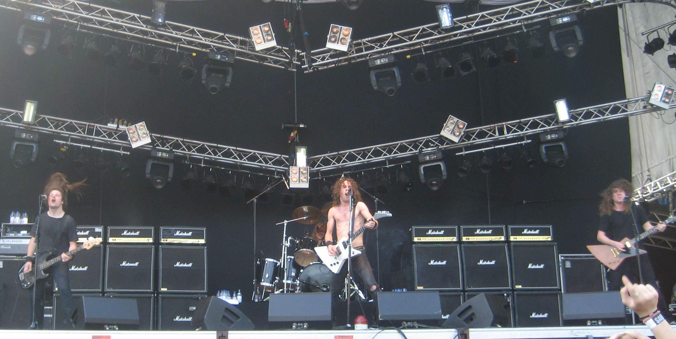 Hard rock band Airbourne at Sauna Open Air festival 2008